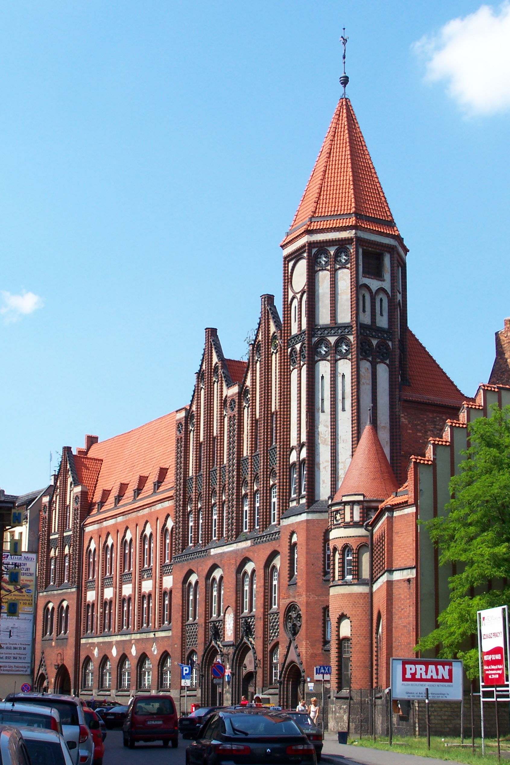 Post in Gliwice (Poland).